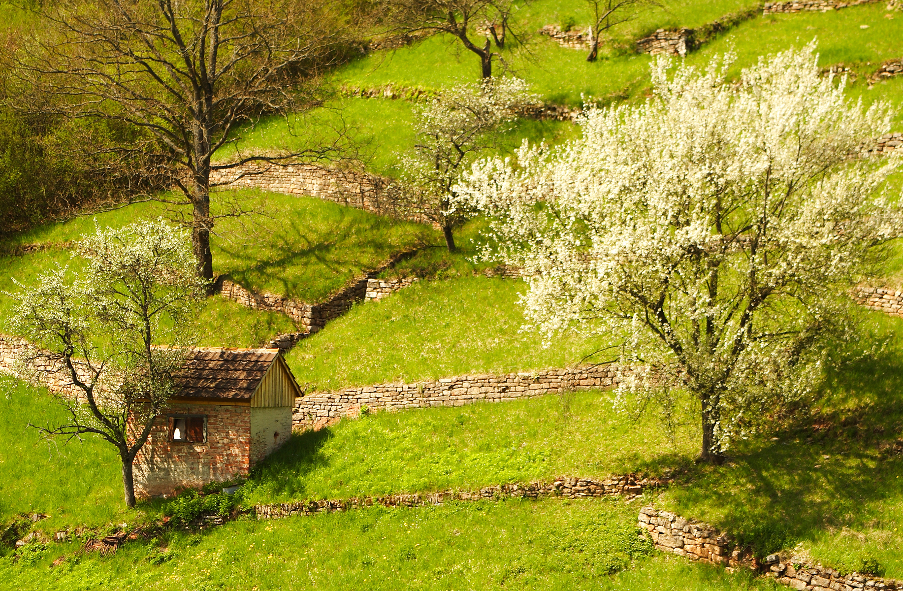 Old vineyard in Tübingen. Local viticulture did not survive the devastation, the Phylloxera louse did to wine in Europe in the middle of the 19th century. Additionally, local wines could simply not compete, when railway technology opened up markets.